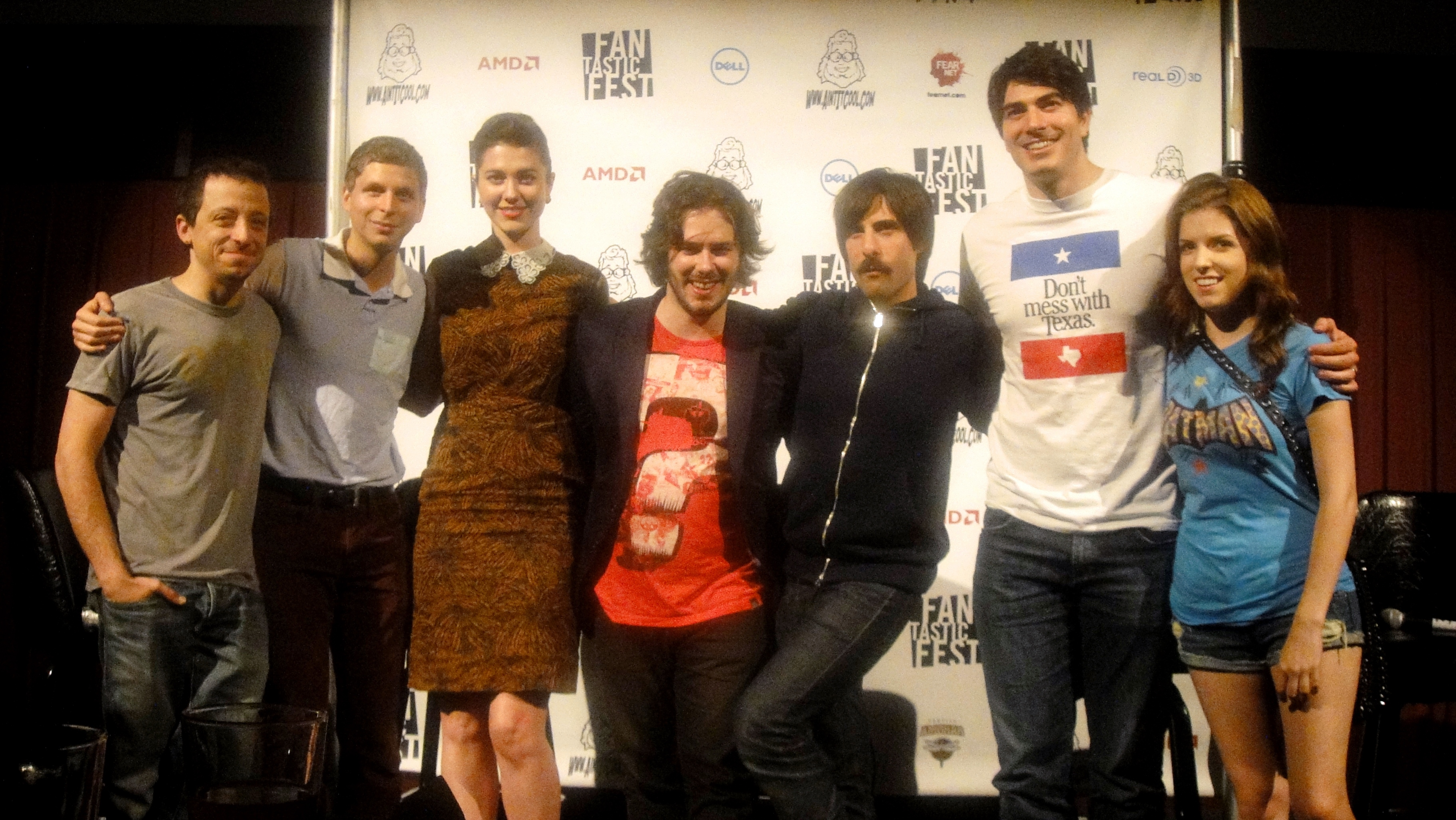 Scott Pilgrim vs. the World Cast 2010.